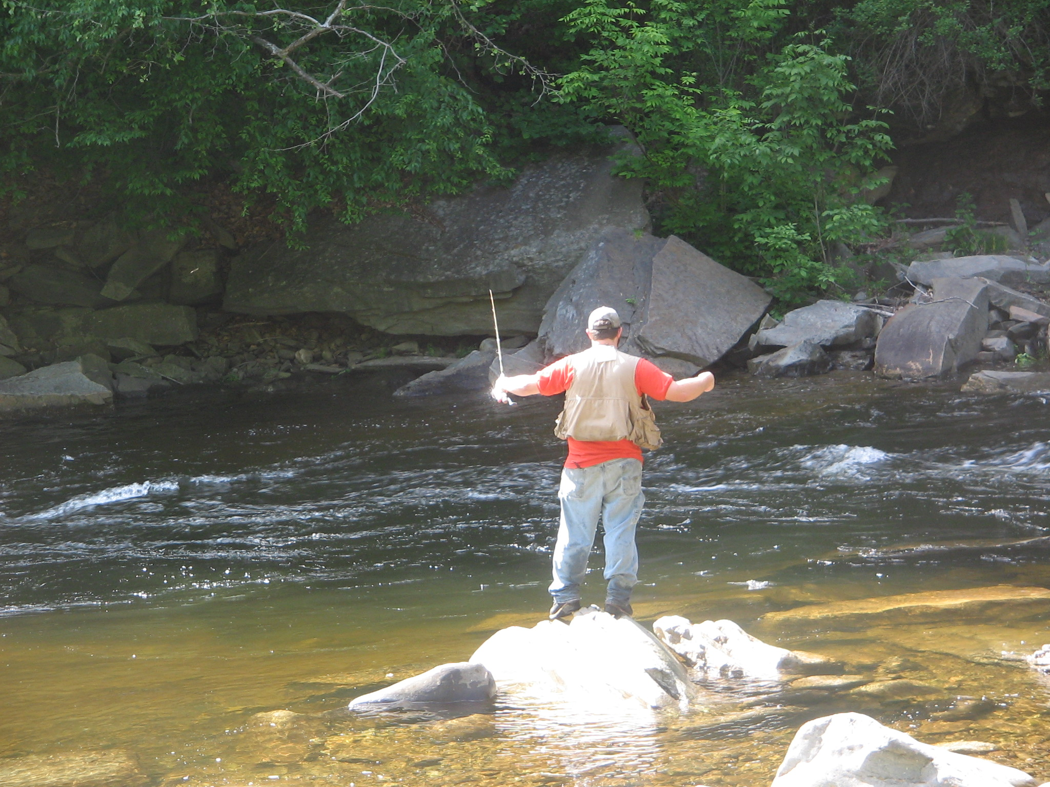 Fisherman in Loyalsock Creek in Worlds End State Park, near Forksville, Sullivan County, Pennsylvania, USA.